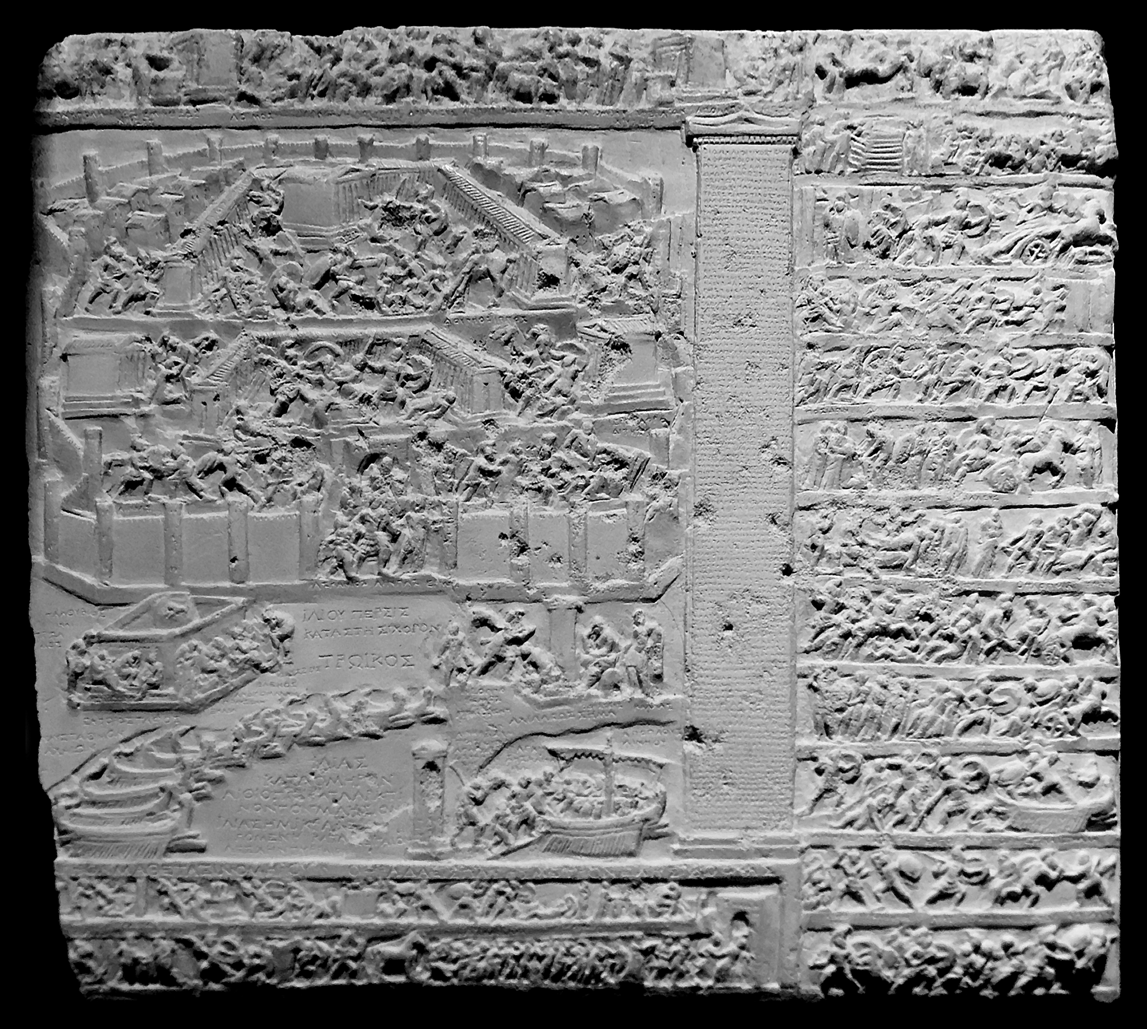 Tabula Iliaca: relief with illustrations drawn from the Homeric poems and the Epic Cycle–here from the Ilioupersis, the Iliad, the Little Iliad and the Æthiopis. Limestone, Roman artwork, 1st century BC.